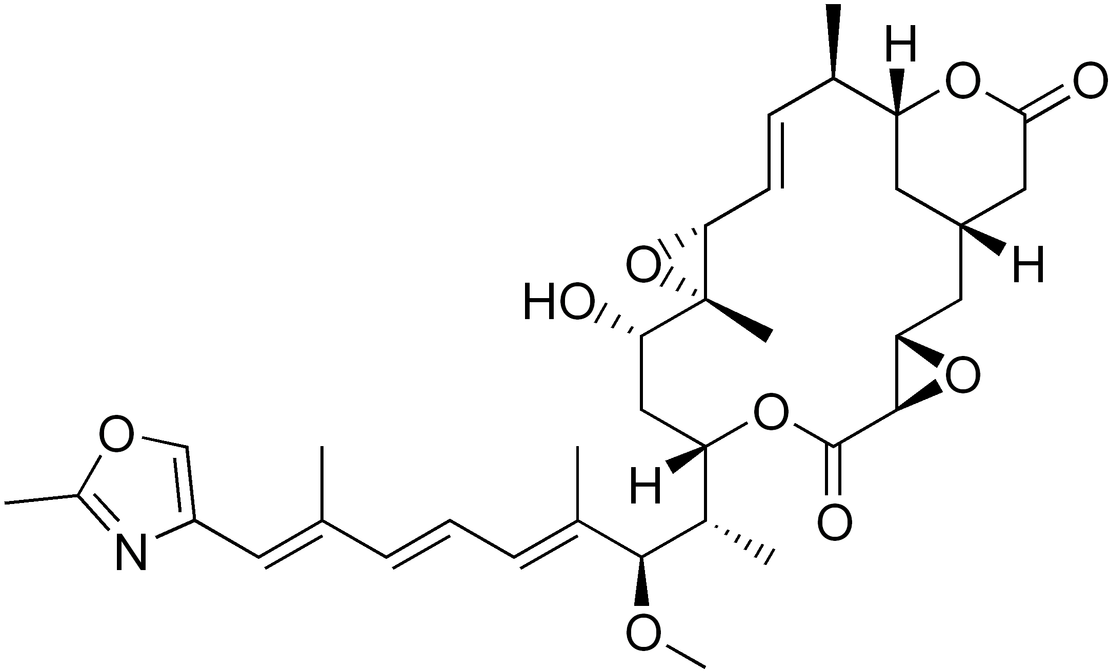 chemical structure of rhizoxin